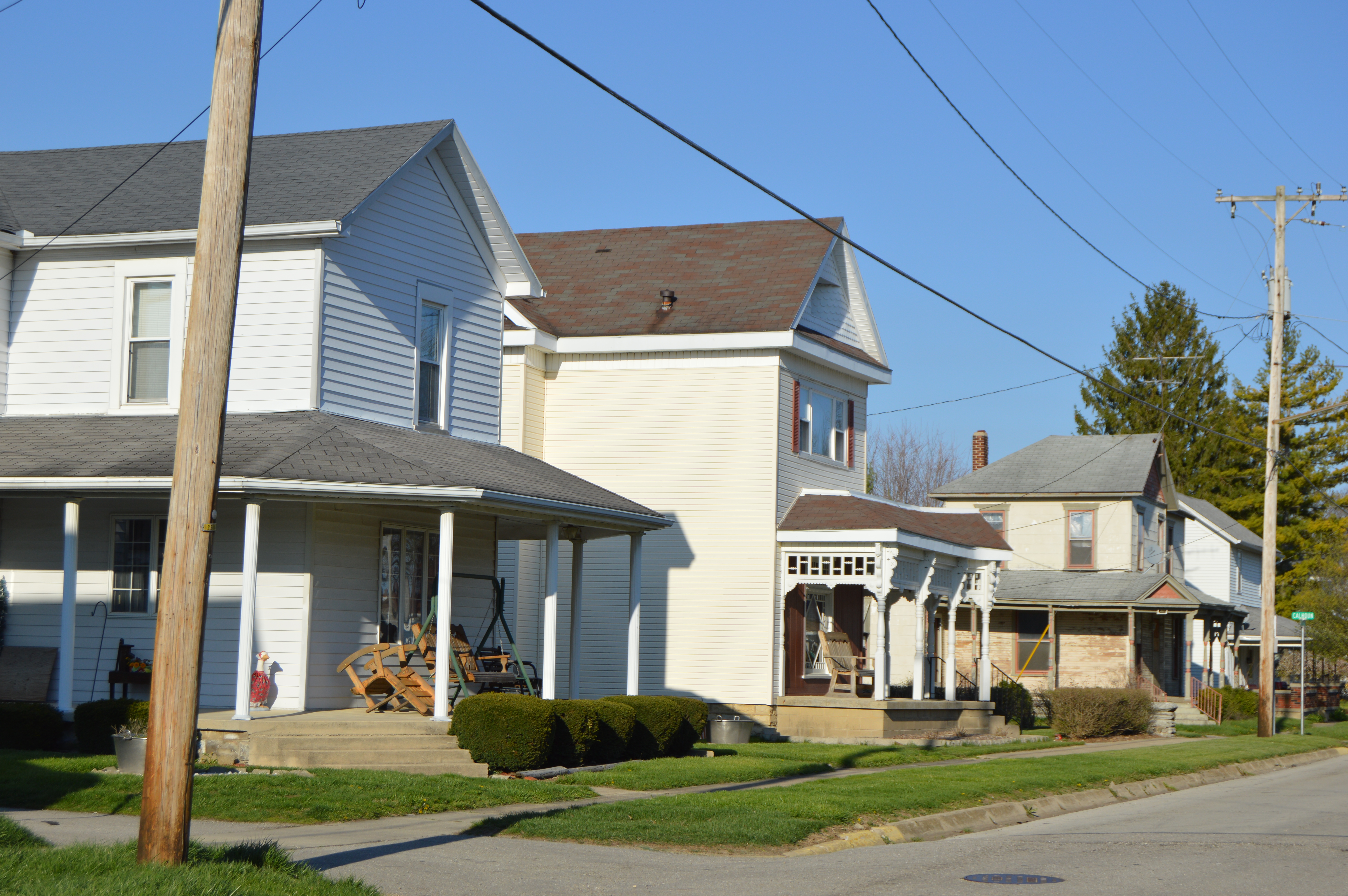 Houses on the northern side of Main Street, west of the Calhoun Street intersection, in Verona, Ohio, United States.